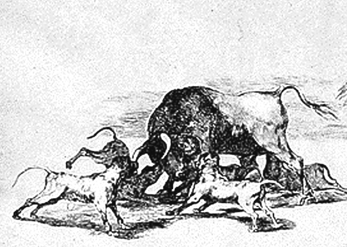 Detail of Goya's "Echan perros al toro", #25 from his series Tauromaquia